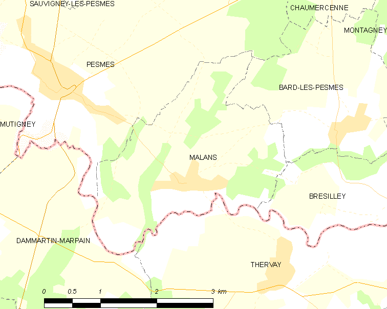 Map of French municipality